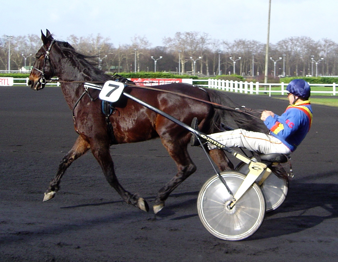 trot racing in Vincennes, France